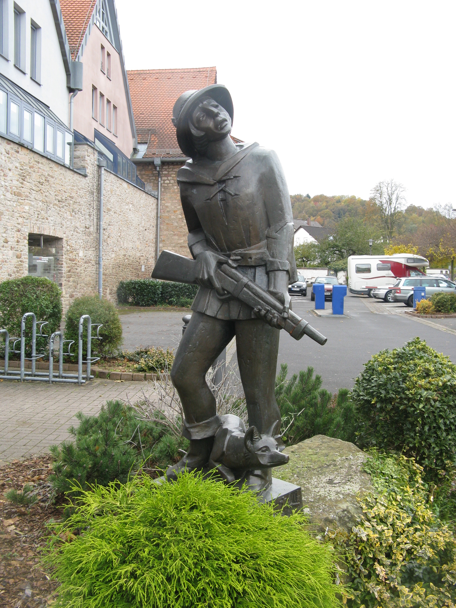 Peter von Orb, legendary Spessart robber of 17th century, sculpture in front of a bank (!), Bad Orb/Germany